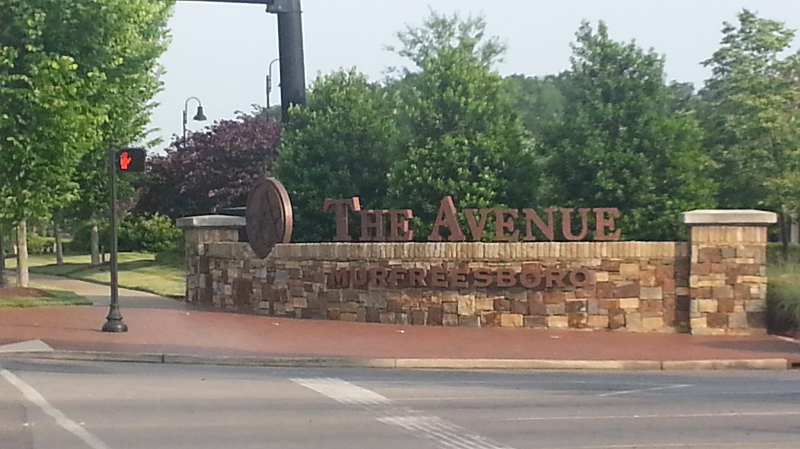 Main entrance sign.